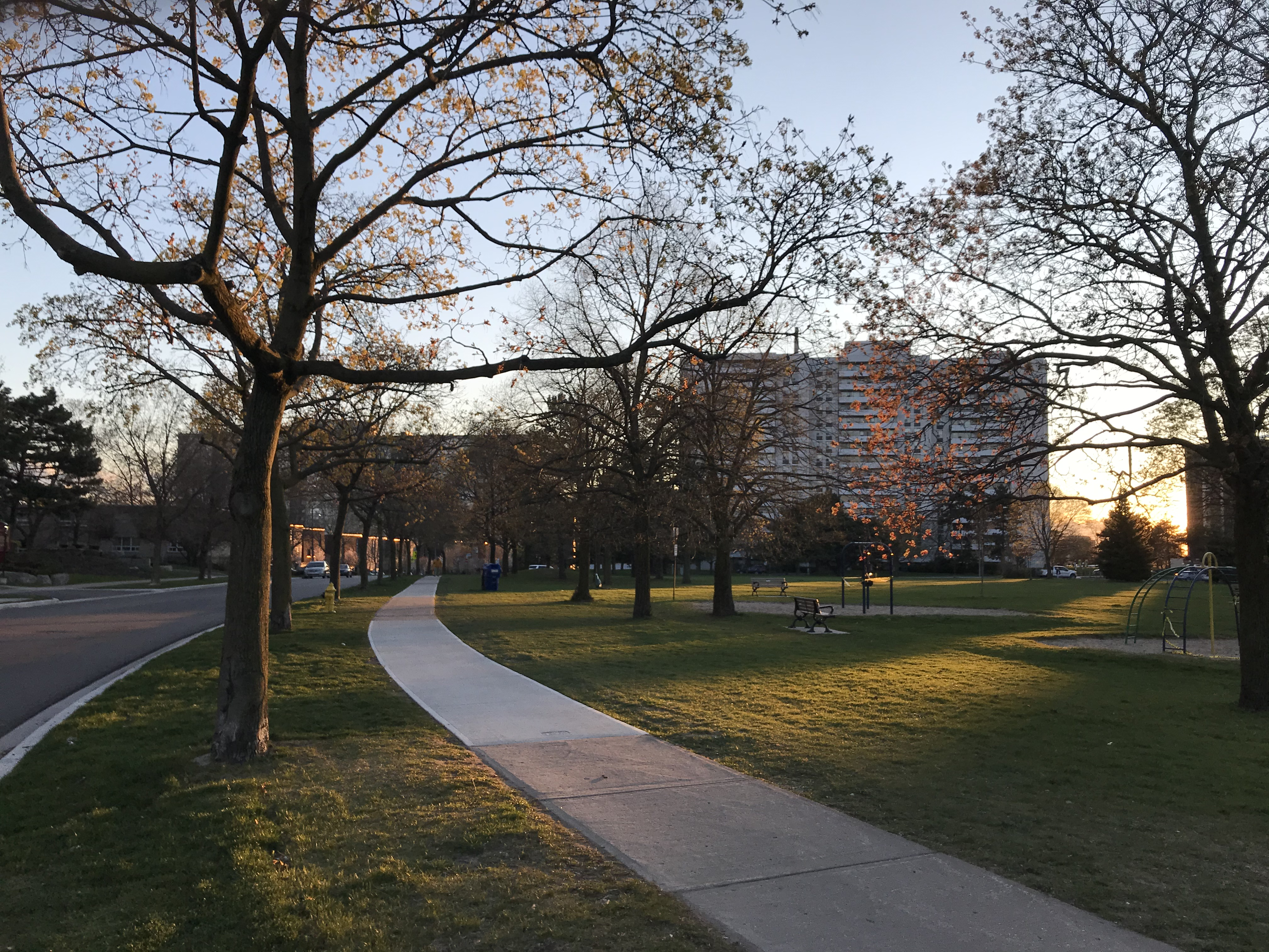 کوردی: Parkway Forest park2